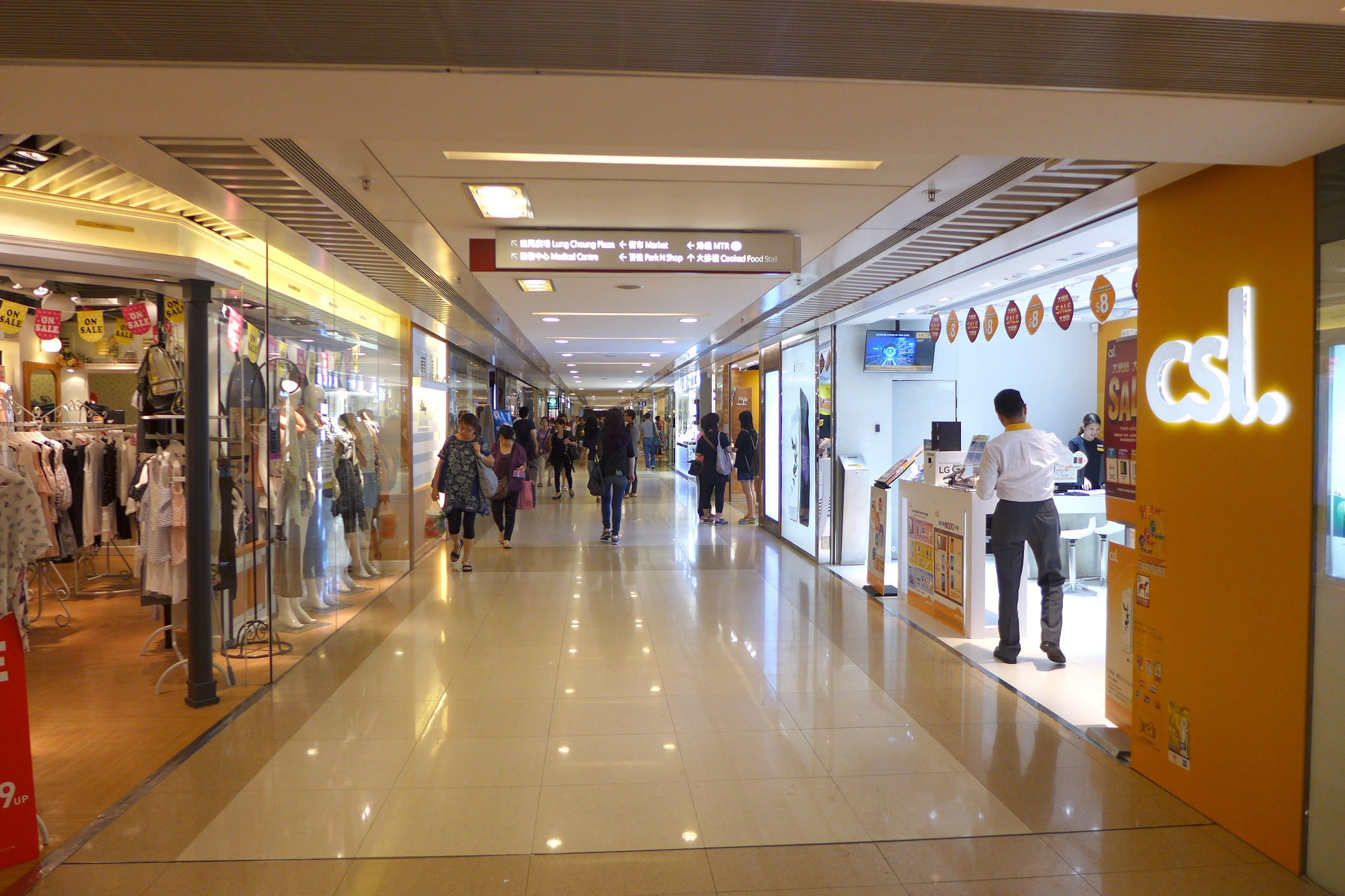 Wong Tai Sin Plaza Access